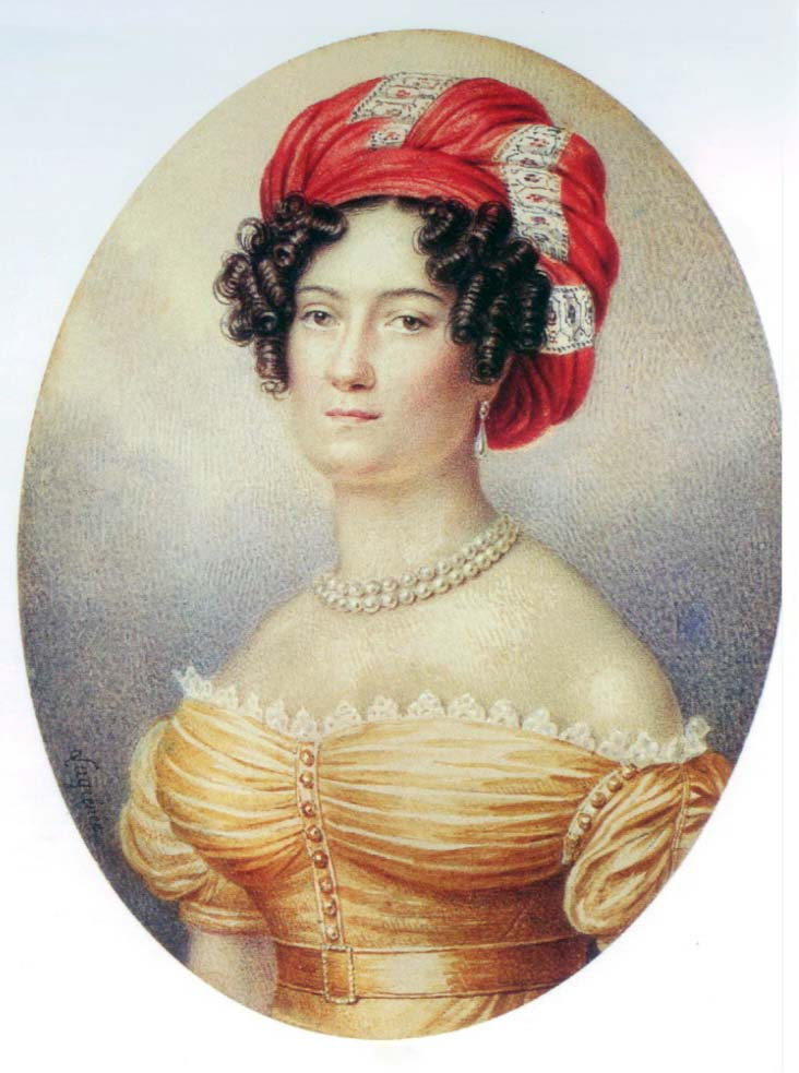 Portrait of Varvara Balk (1781-1841)